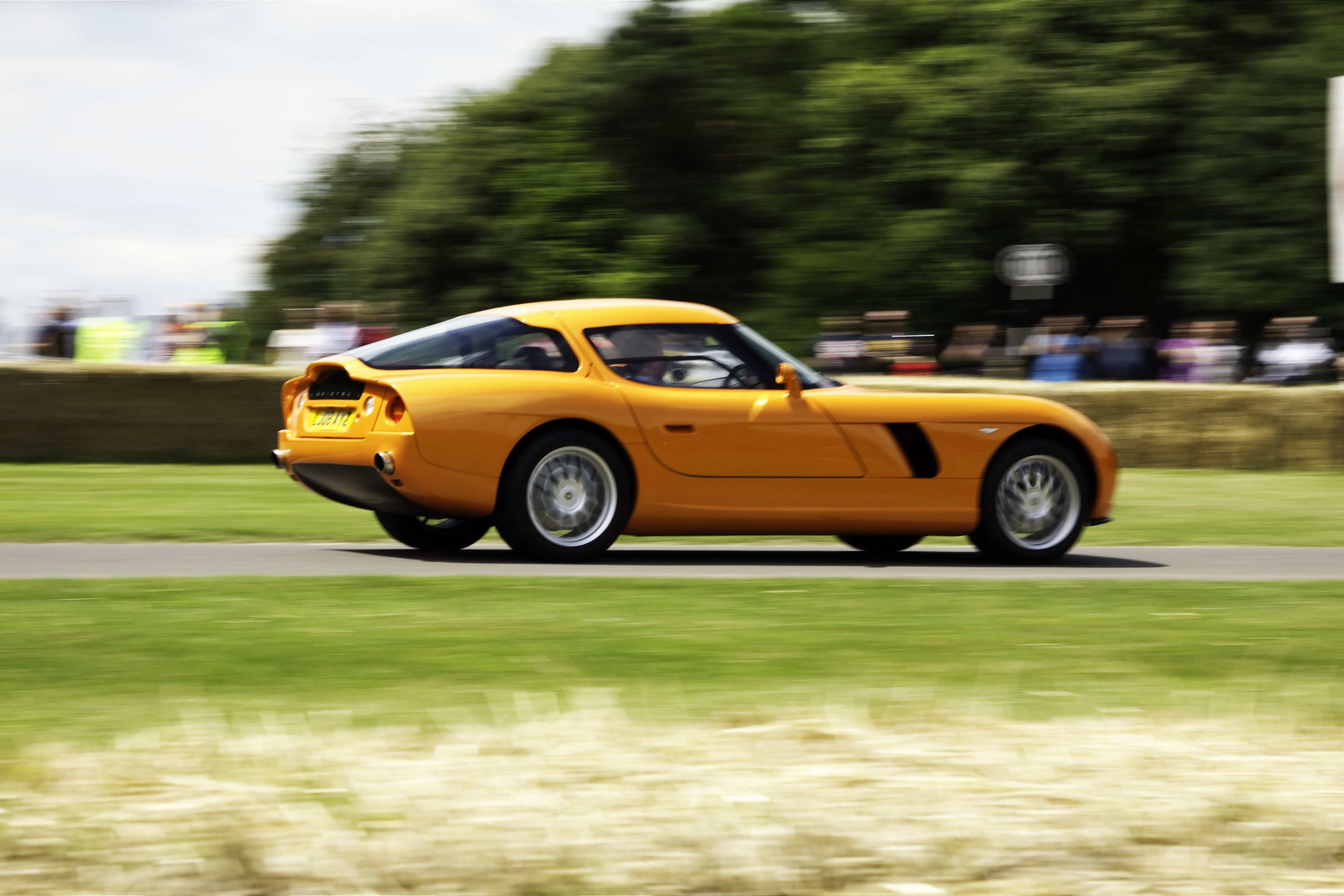 Bristol Fighter